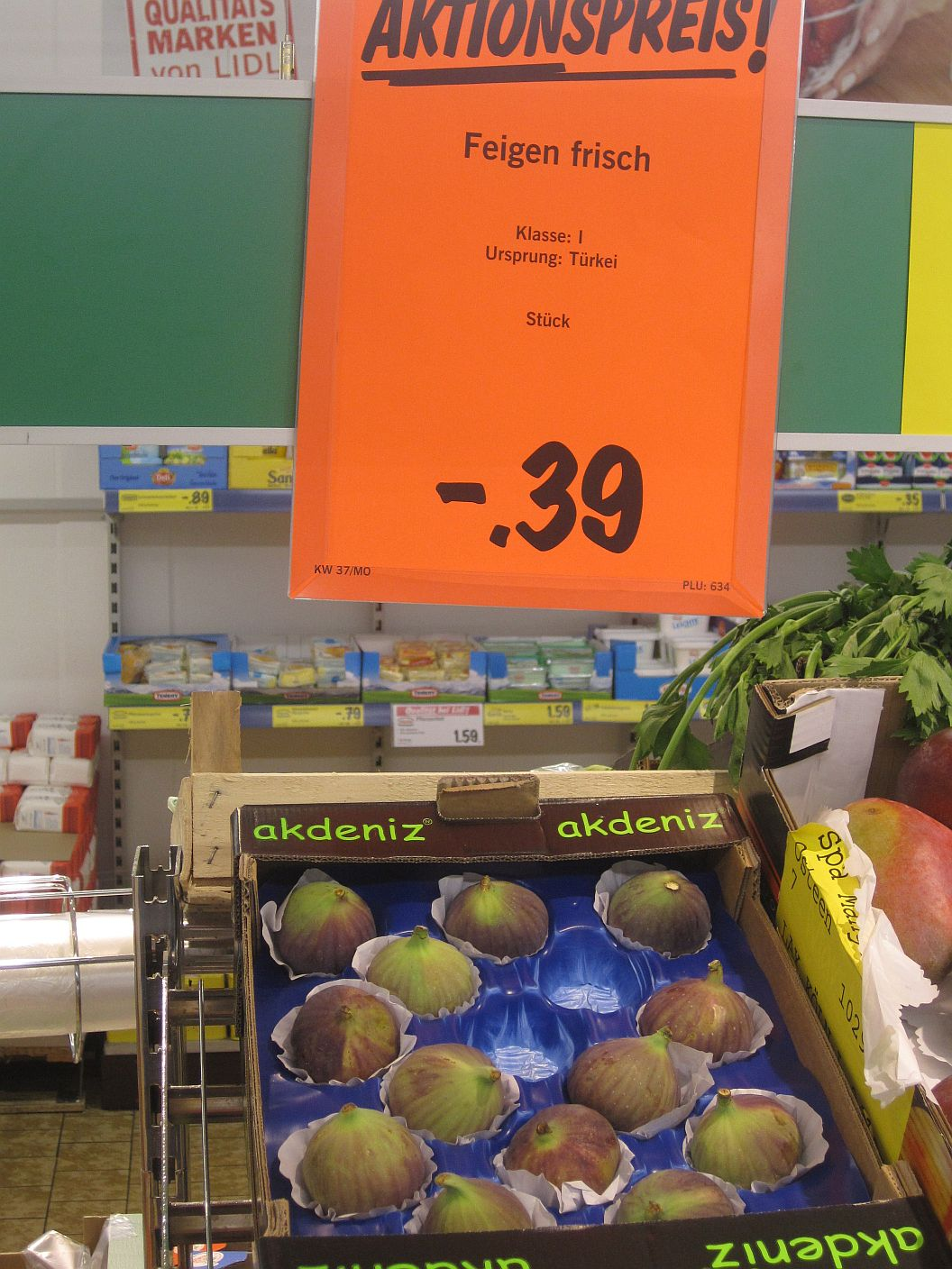 Figs of Turkey